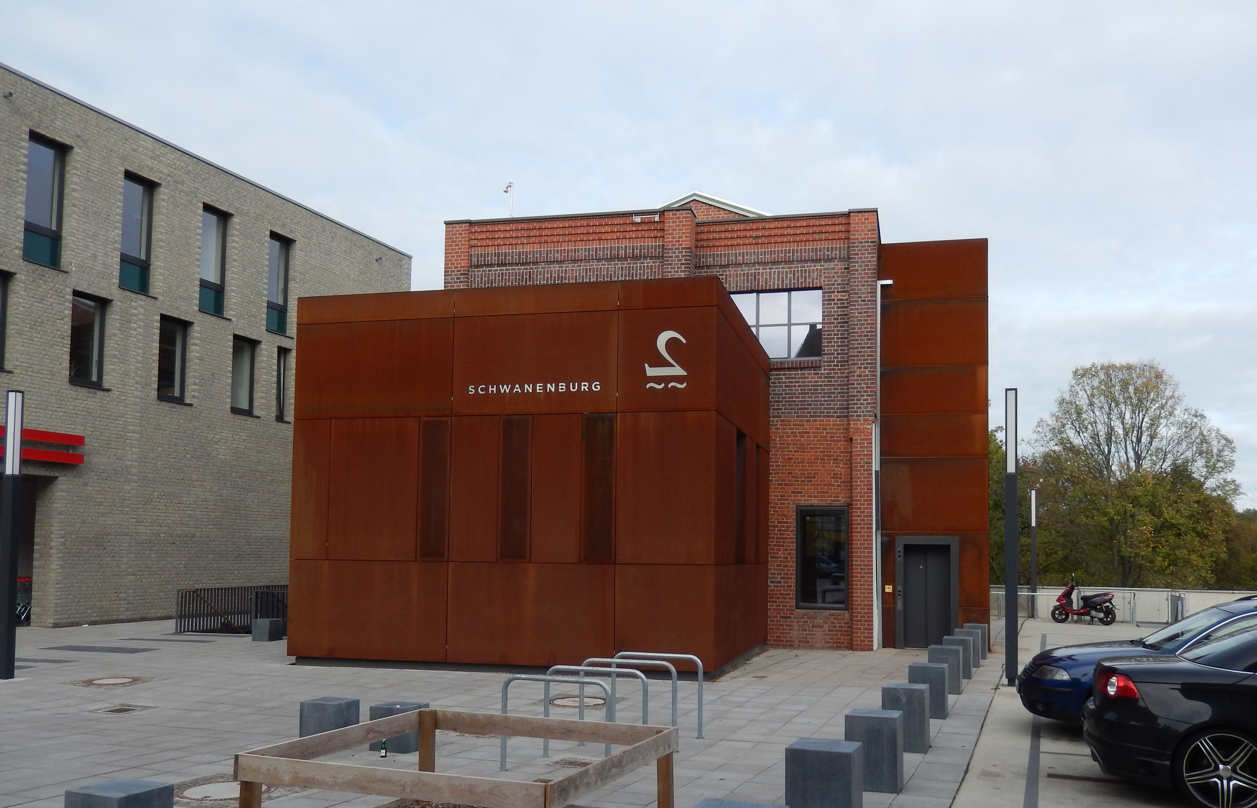 Restaurant Schwanenburg in Hannover, Germany.